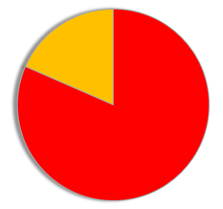 Expressed as a pie chart in the Fukui gubernatorial election in 2011, the number of votes for each candidate. explanatory notes ■ - Issei Nishikawa ■ - Kunihiro Uno